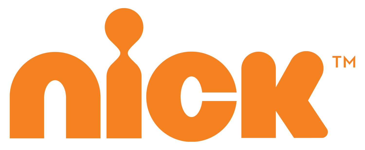 The shortened form of the post-2009 Nickelodeon logo, using the diminutive name "Nick".